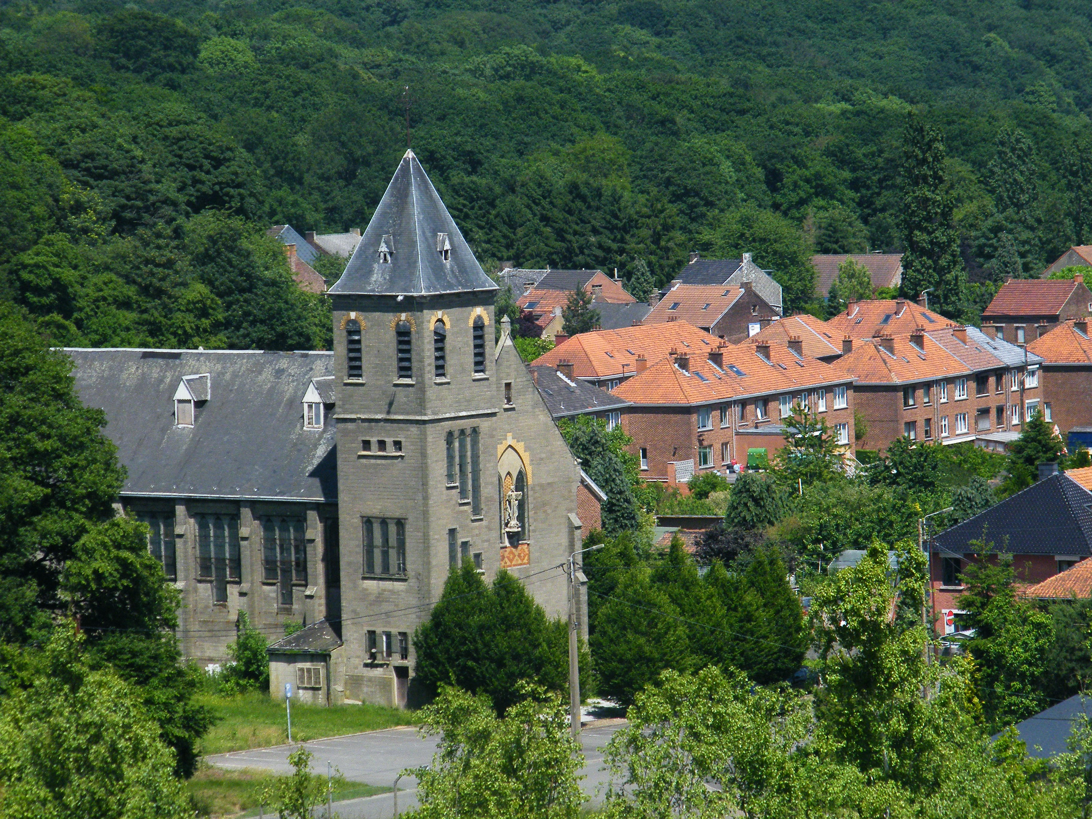 Church of "La Praile", Tamines